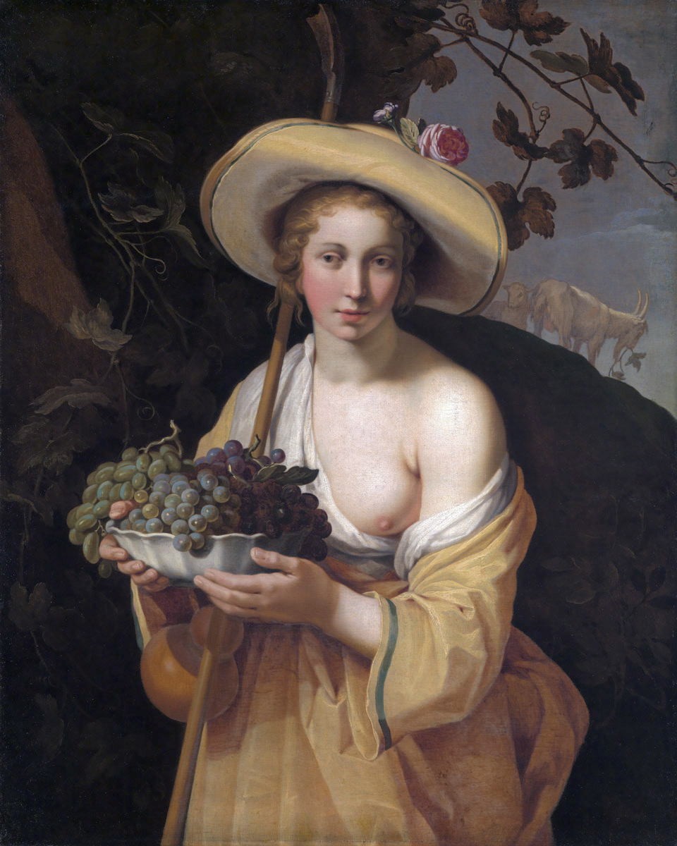 Shepherdess with bowl of grapes oil on canvas 104 x 83 cm signed b.l.: A Bloemaert fe 1628